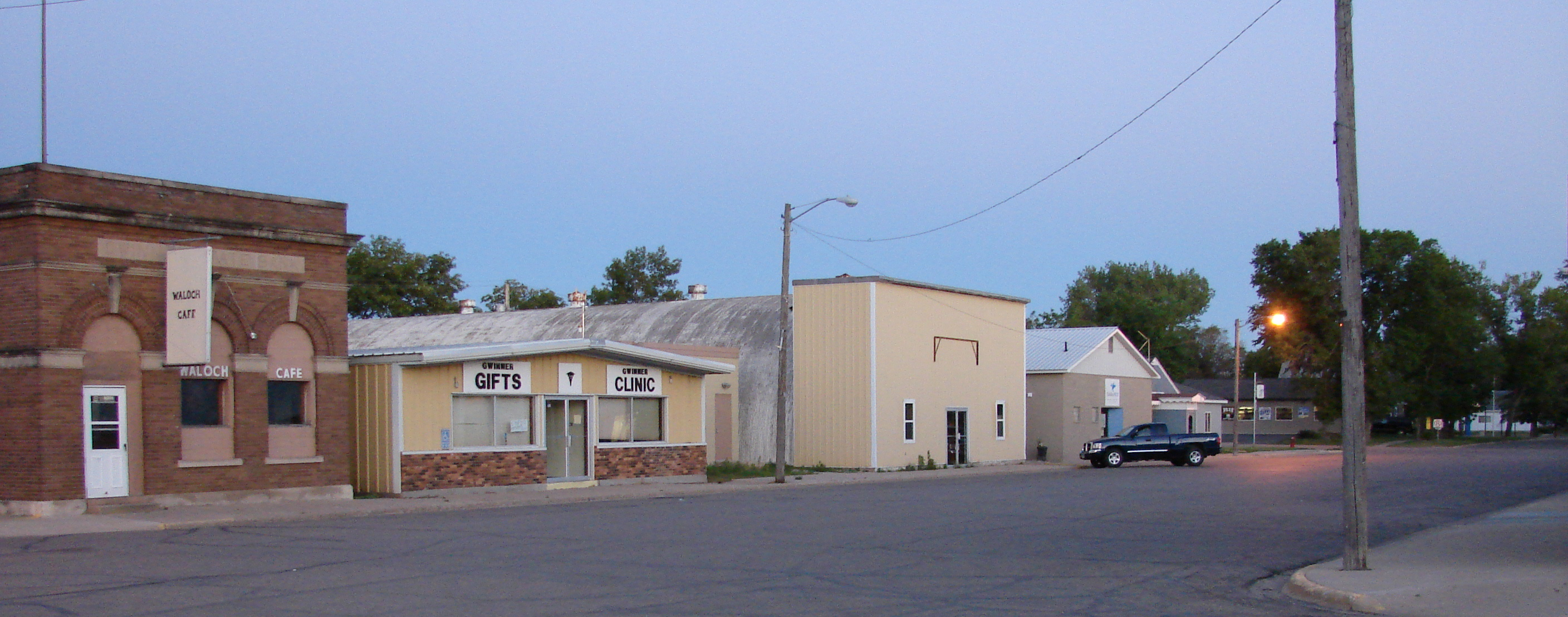 View of the east side of Gwinner's main street at dusk. The Bobcat factory would be to the left of this image.